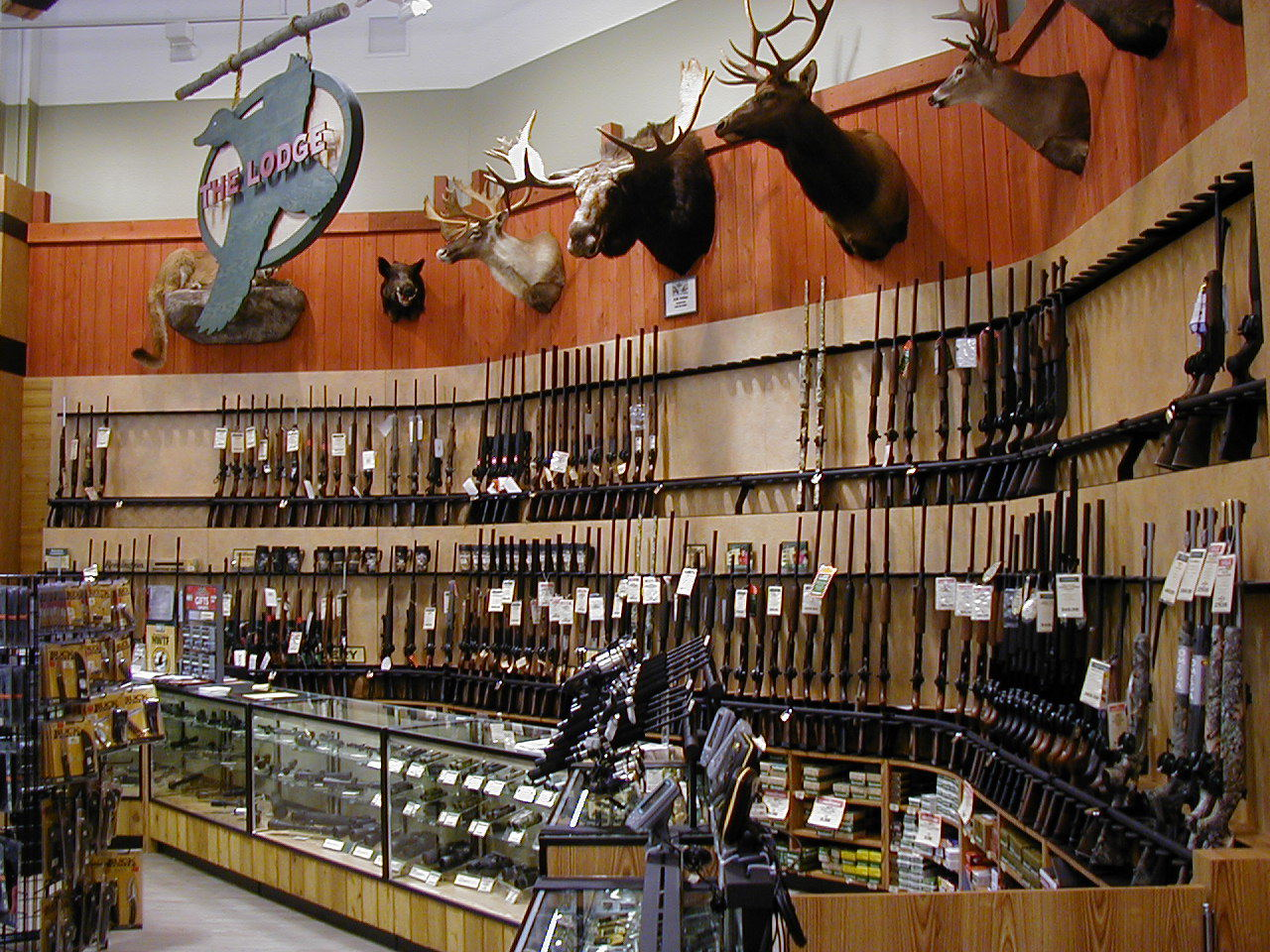 The Lodge section of a modern Dick's Sporting Goods store.